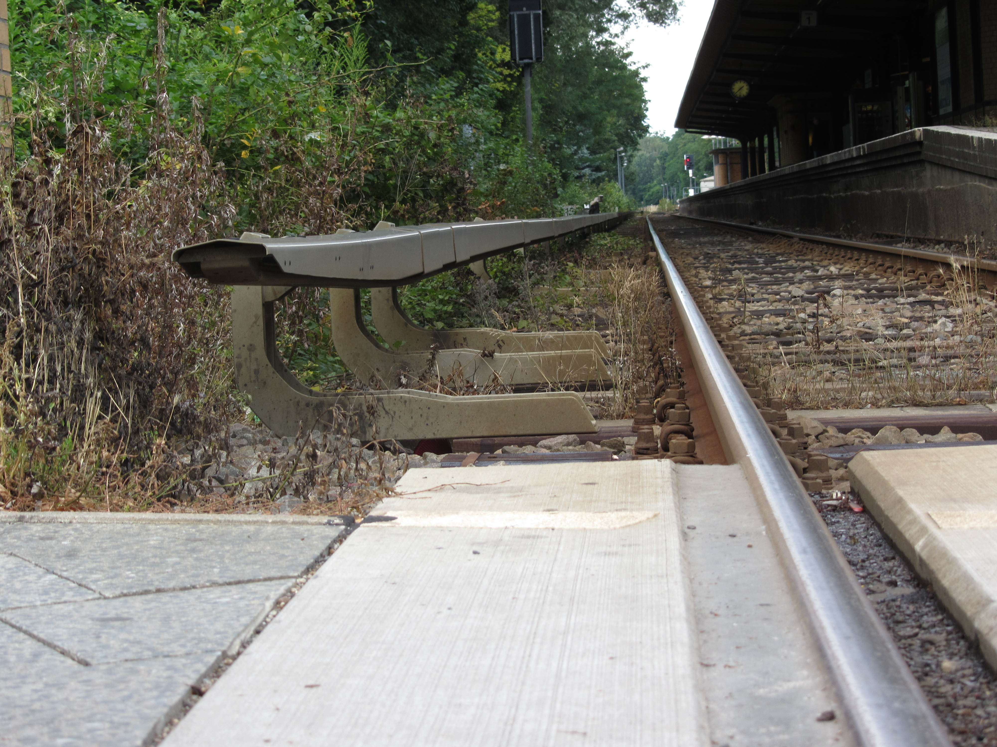 Third rail interrupted for level crossing at Berlin S-Bahn station Lichtenrade, with streets Bahnhofstraße and Prinzessinnenstraße, on the Berlin-Dresden railway line